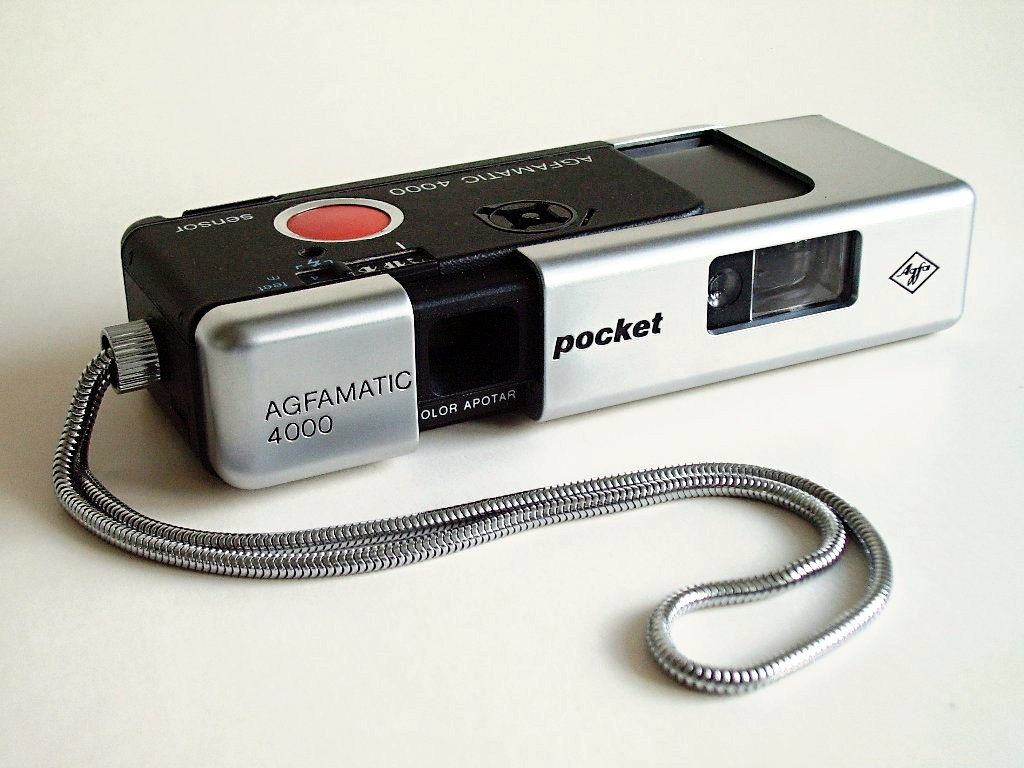 Agfamatic Pocket 4000 camera. Uses type 110 Instamatic pocket film cartridges. Automatic exposure control. Manual focus with symbols on distance scale.